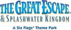 The Great Escape & Splashwater Kingdom logo used until 2012.